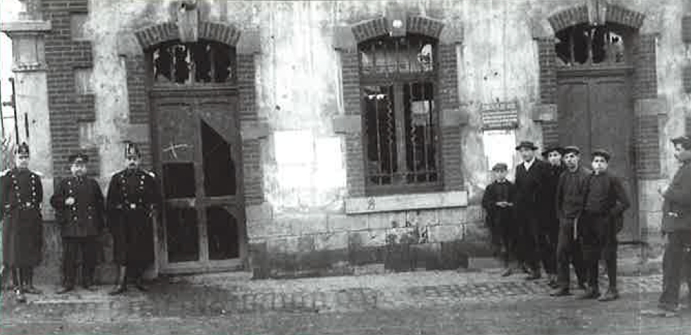 Damage done at the entrance of the Differdange iron works as a consequence of the 1912 strike. The photo was done at the request of the chief of police Mosinger.